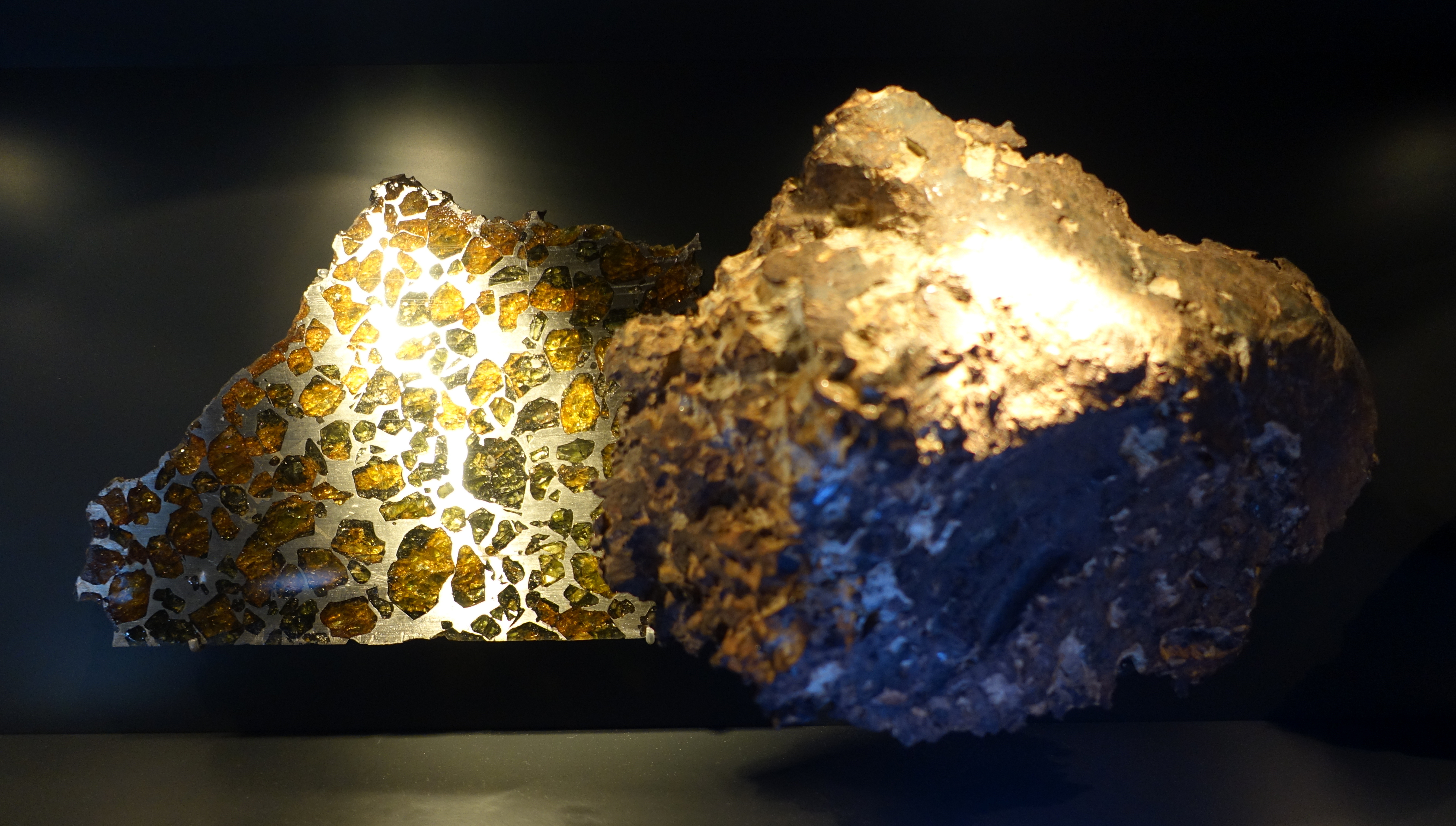 Exhibit in Museum für Naturkunde, Berlin, Germany.